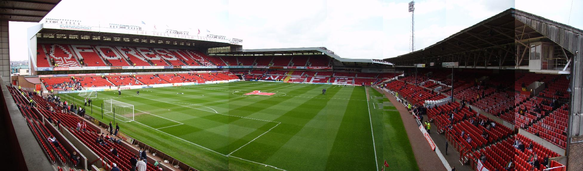 A panorama of The City Ground, taken from the Trent End from the Nottingham Forest v Bournemouth League One match in 2006. Also illustrates why you should not use auto settings when taking panoramic photos!